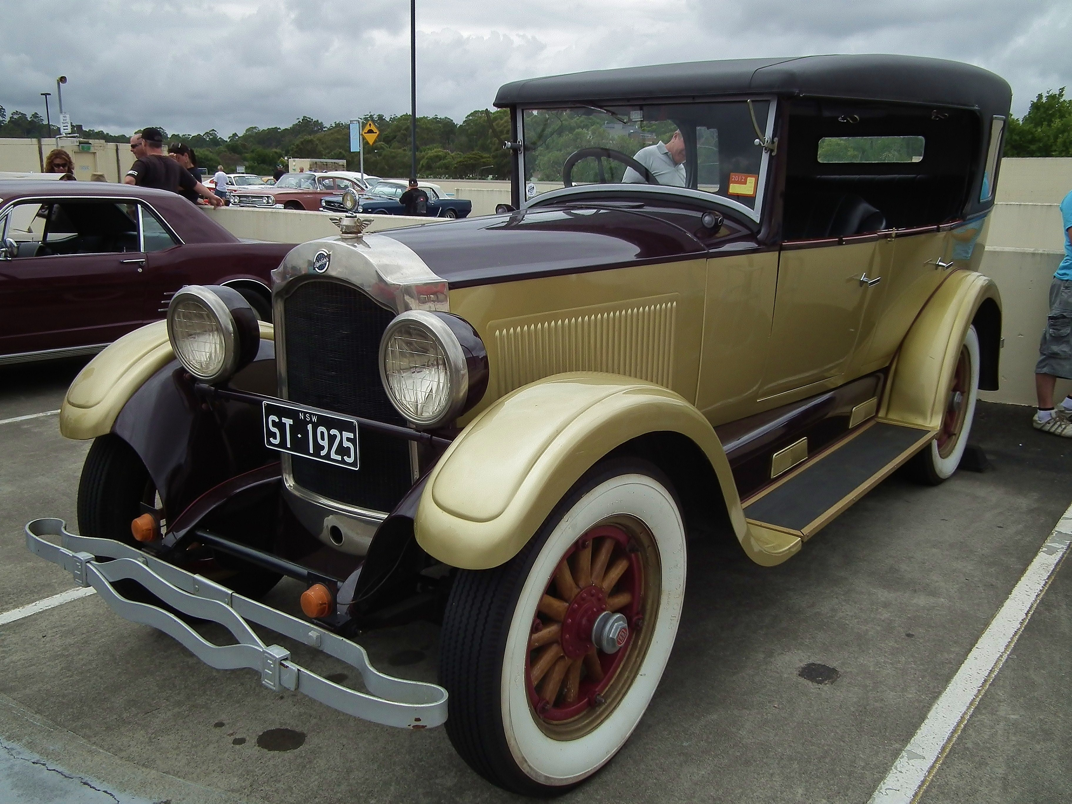 1925 Studebaker California sedan. Taken at the 2012 New South Wales All American Day, held at Castle Towers Shopping Centre, Castle Hill, Sydney.